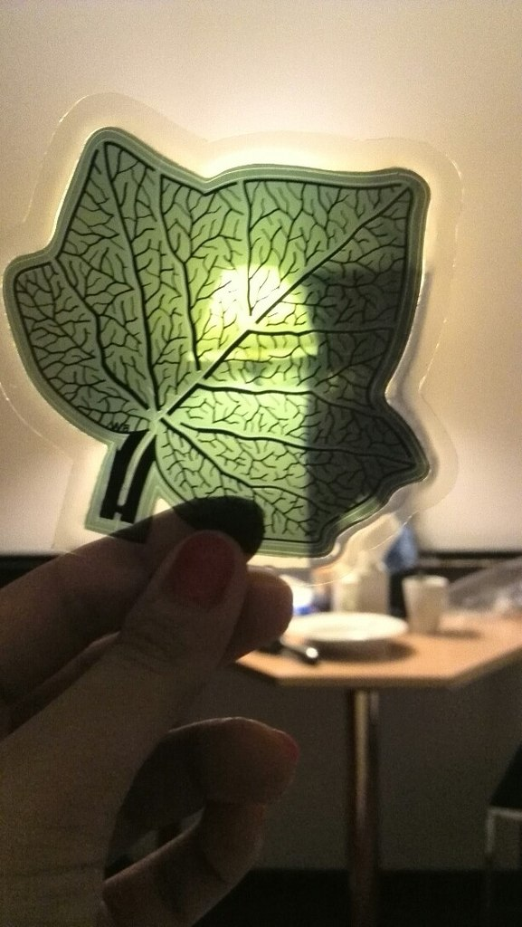 Belectric OPV solar cell with low band gap polymer